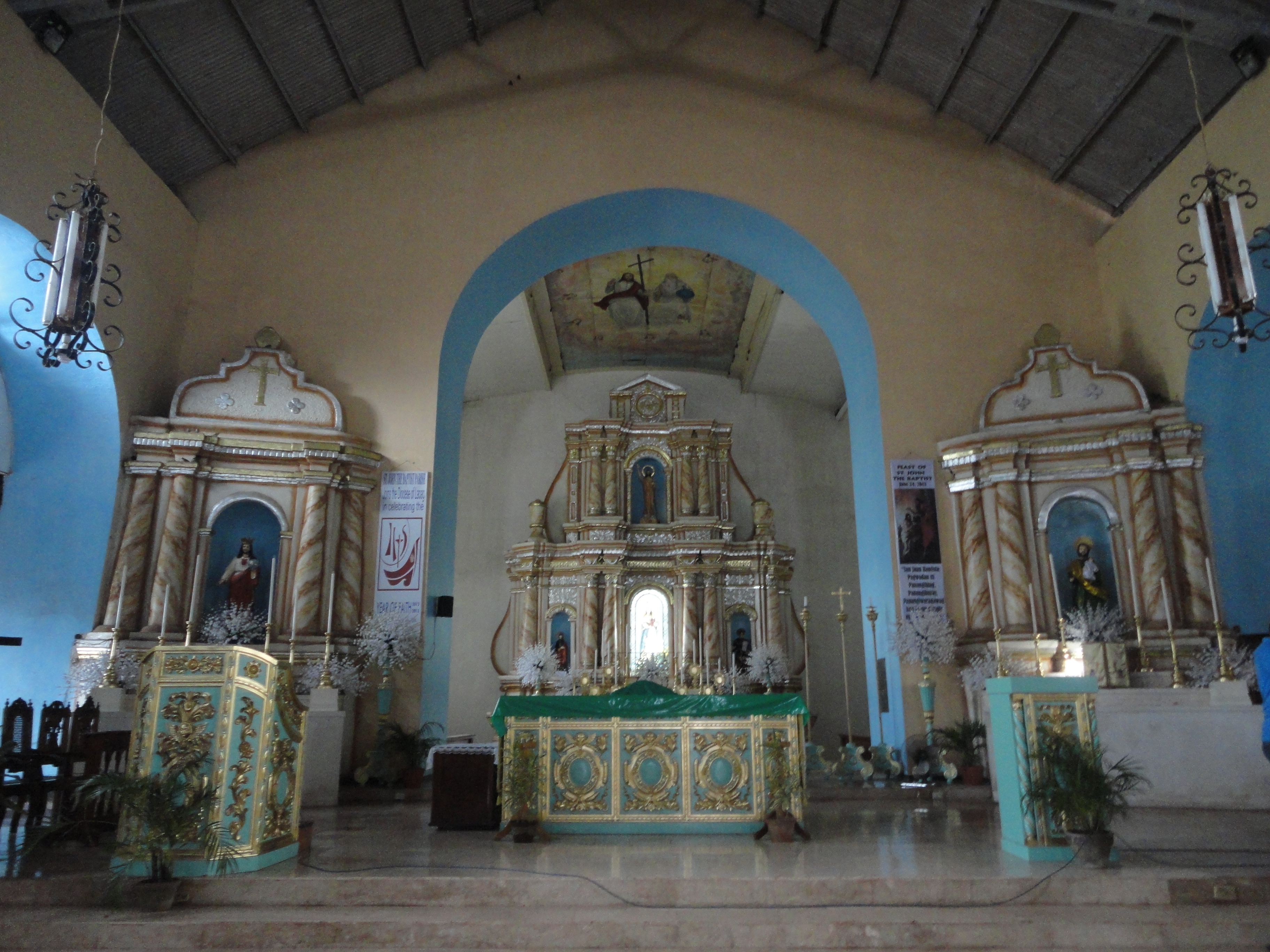 Badoc Church altar